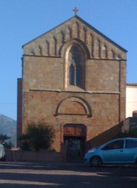 Church of "Nostra Signora di Valverde" - Iglesias , Sardinia-Italy